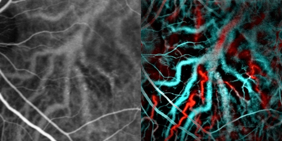 Indocyanine green angiography vs laser Doppler holography of the macula in central serous chorioretinopathy.